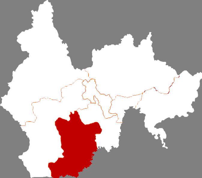 Location of Helong county-level city in Yanbian Korean Autonomous Prefecture, China